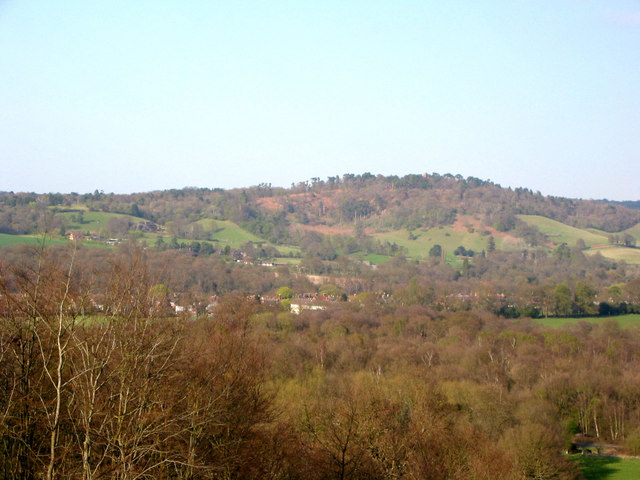 St Martha's Hill from Chinthurst Hill